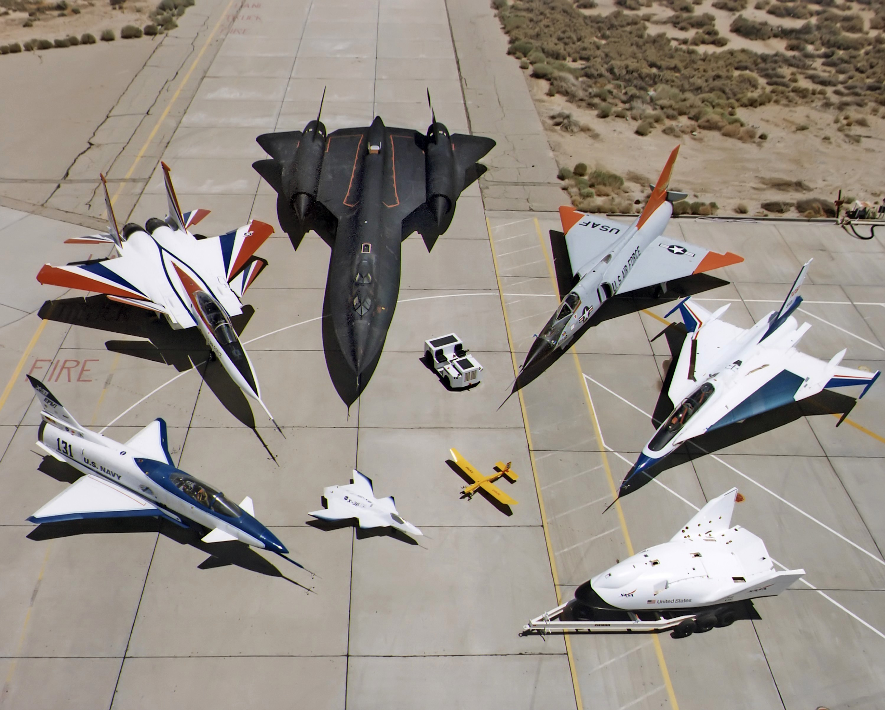 NASA's Research Aircraft Fleet on ramp at Dryden Flight Research Center: X-31, F-15 ACTIVE, SR-71, F-106, F-16XL #2, X-38, Radio Controlled Mothership and X-36.